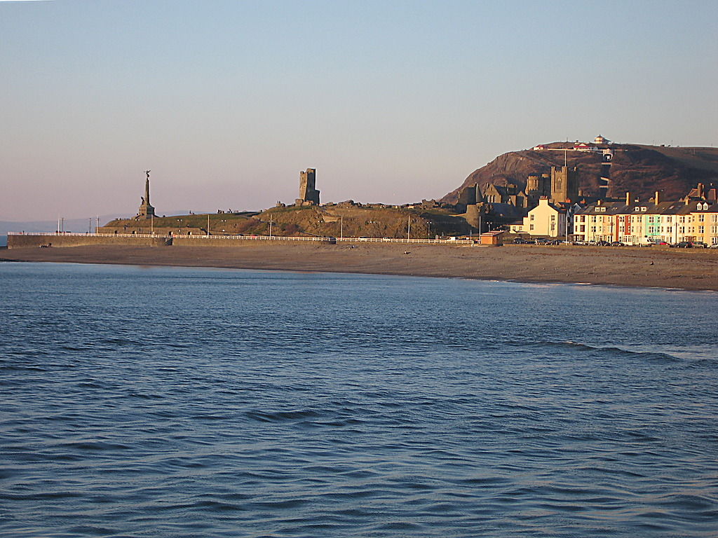 Aberystwyth castle Seen from the harbour jetty, right next to the lighthouse. The castle lies on a small promontory separating North and South Beach, with the war memorial at the tip (left, west). On the right, the colourful houses of South Marine Terrace can be seen. St Michael's church and the Old College of Aberystwyth University are behind them towards the centre. Constitution hill ('Consti') with its funicular railway in SN5882 loiters at the back.